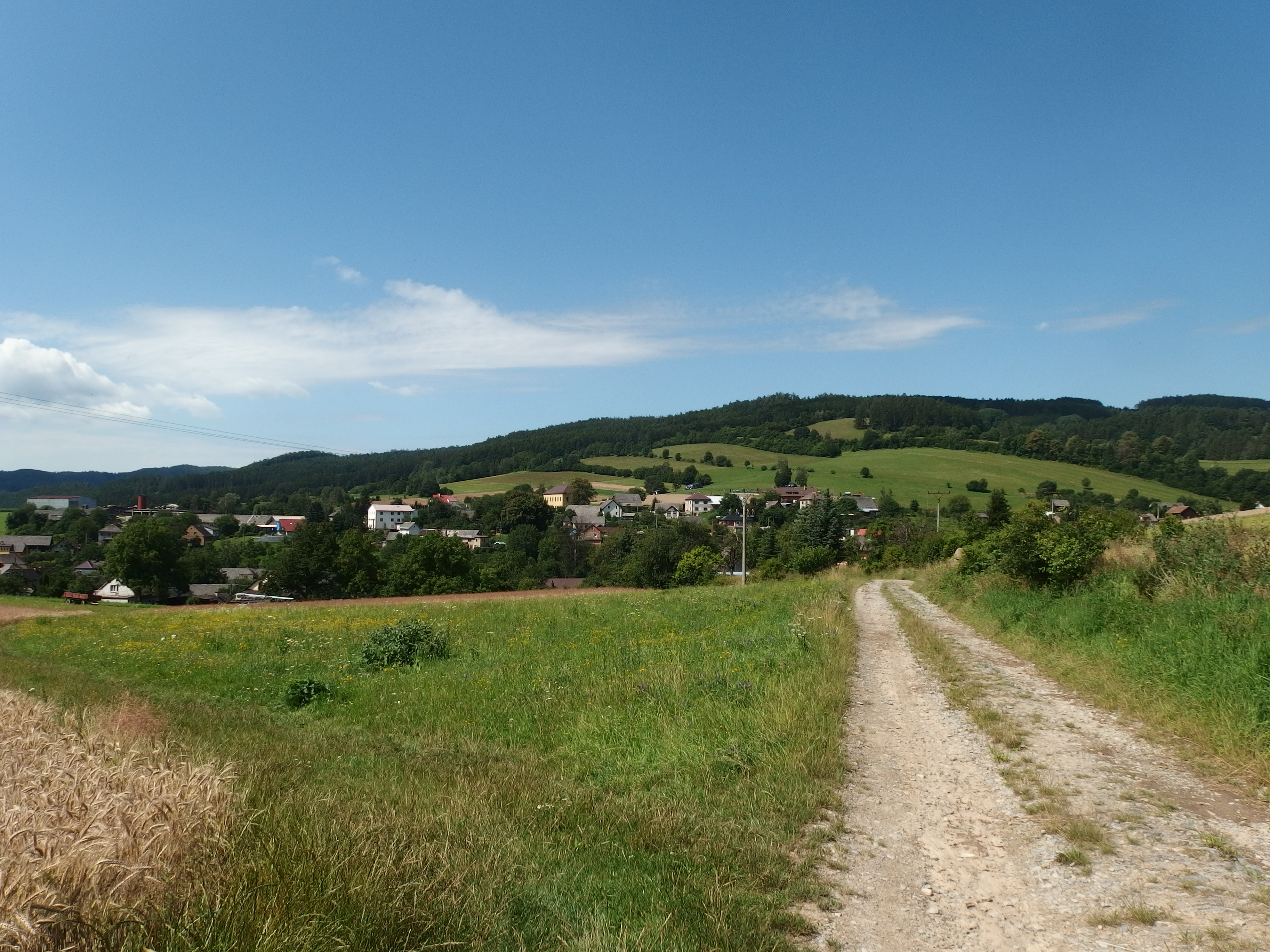 Ruda nad Moravou, Šumperk District, Czechia, part Hostice.